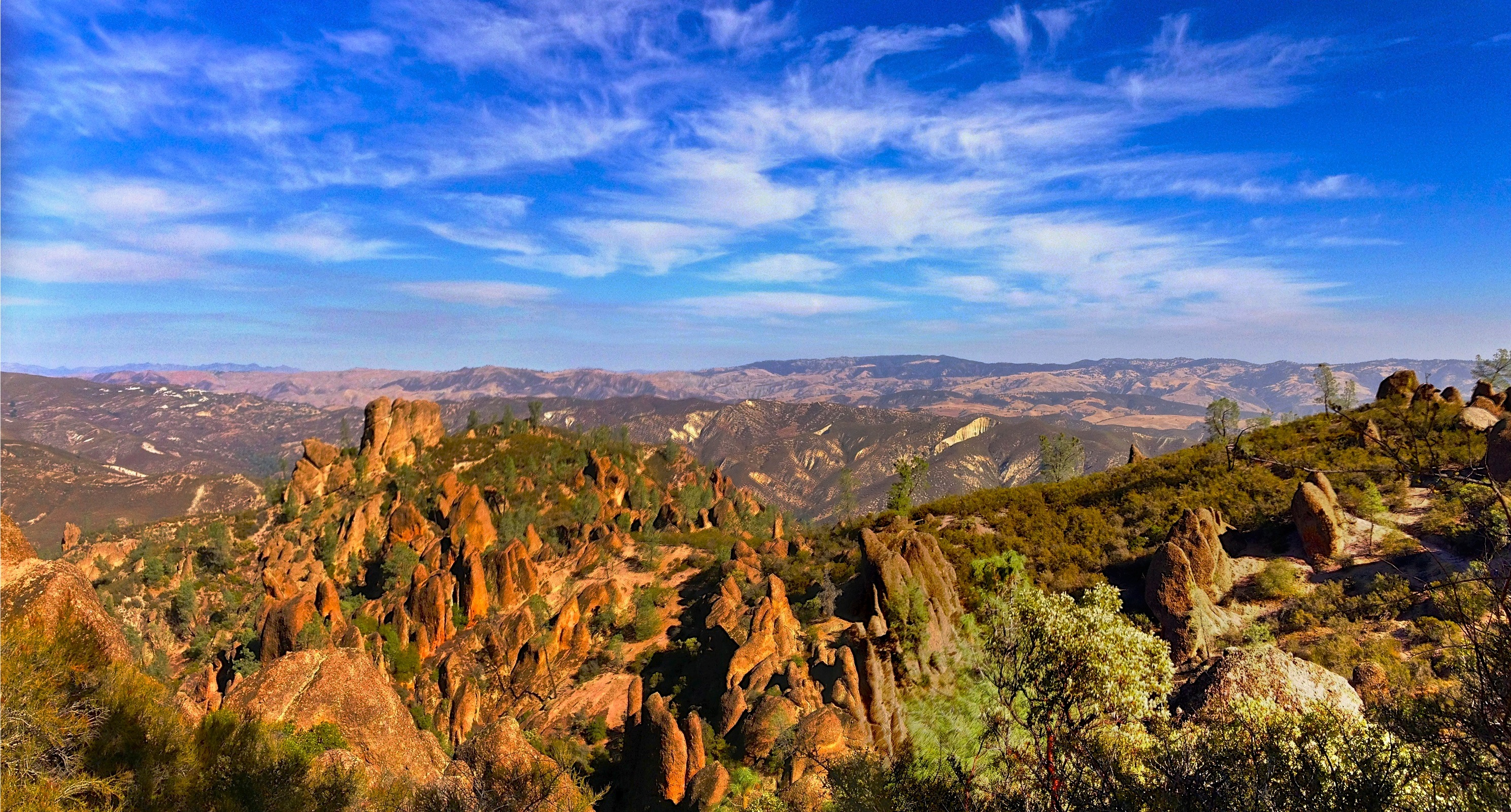 Panoramic view